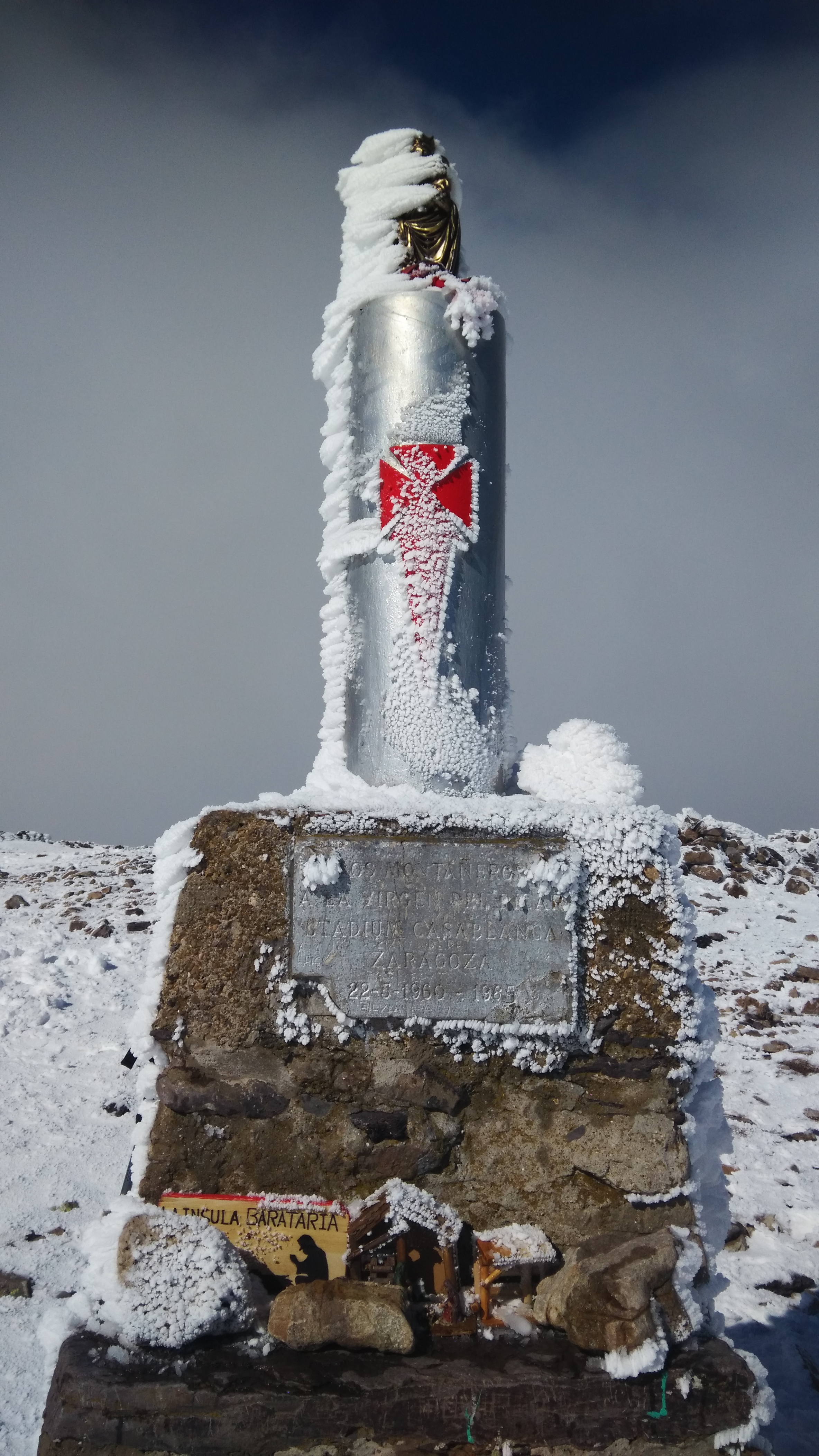 This is a photography of a Special Area of Conservation in Spain with the ID: ES4170119. Natura2000 entry, EEA entry